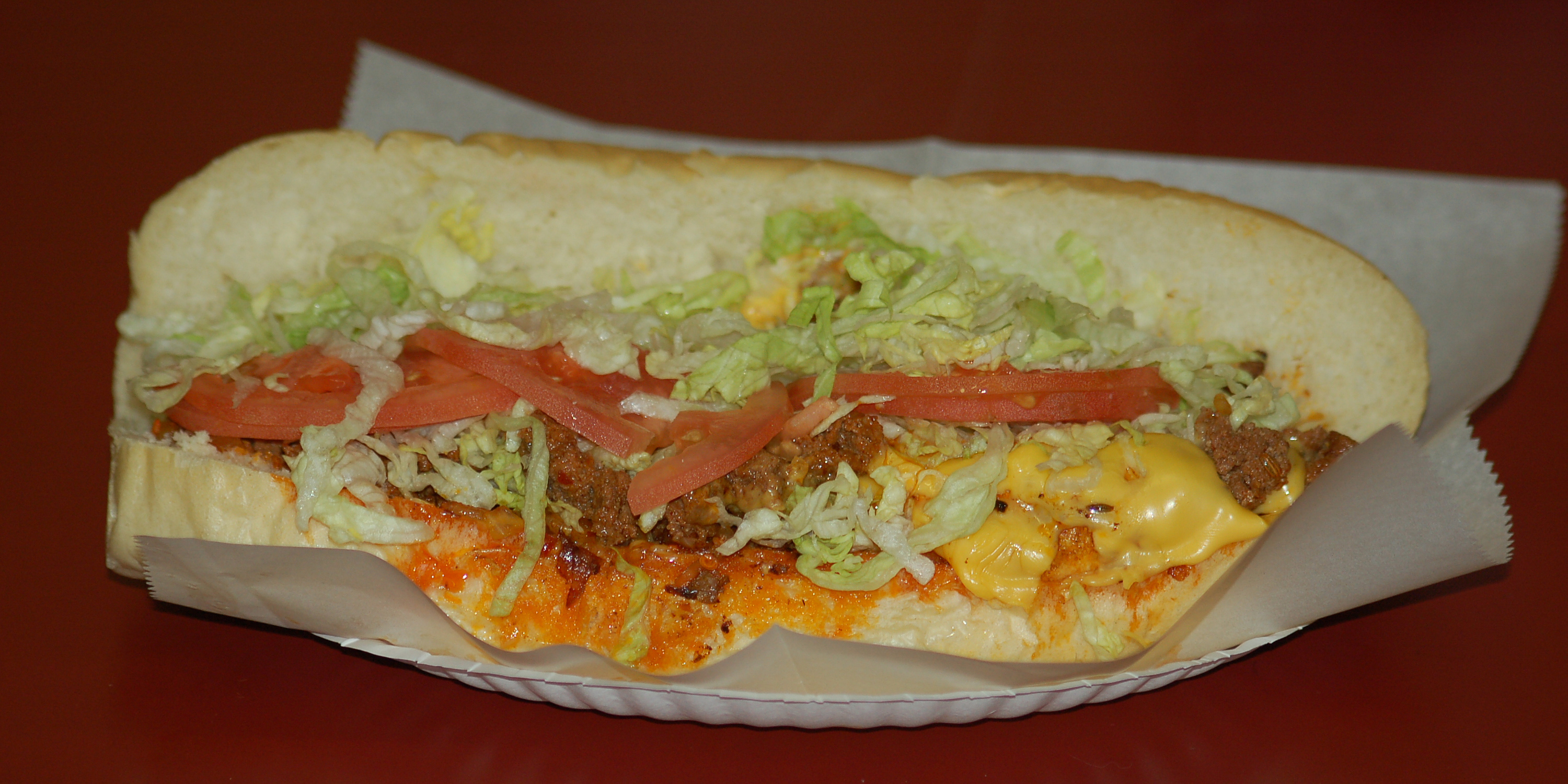 A photograph of Ben Roethlisbergeren Number 7 "Rothlisburger" sandwich from Peppi's Store in Pittsburgh, Pennsylvania.